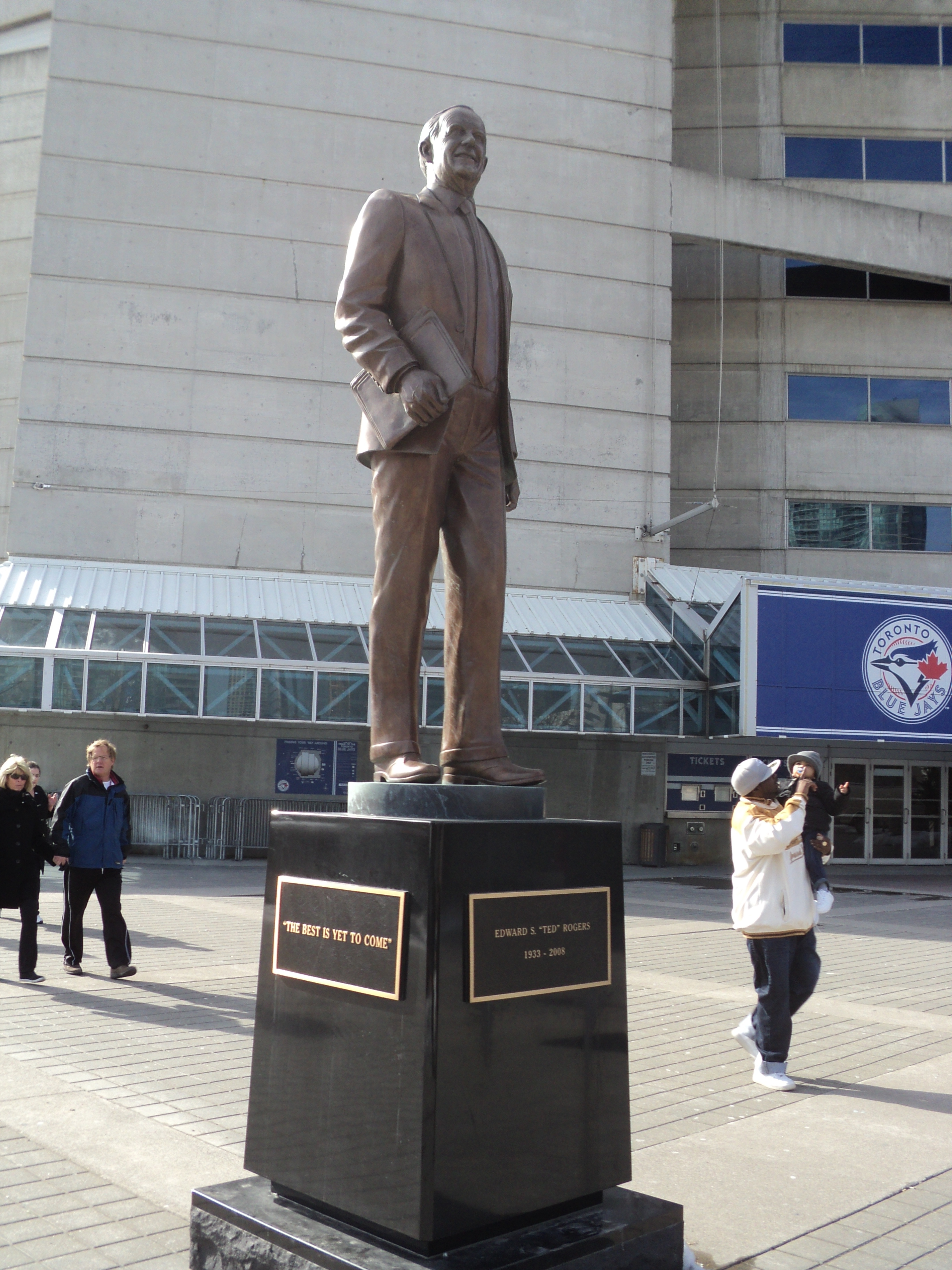 Statue of Ted Rogers in front of the Rogers Centre in Toronto. The plaque on the left reads "The best is yet to come".